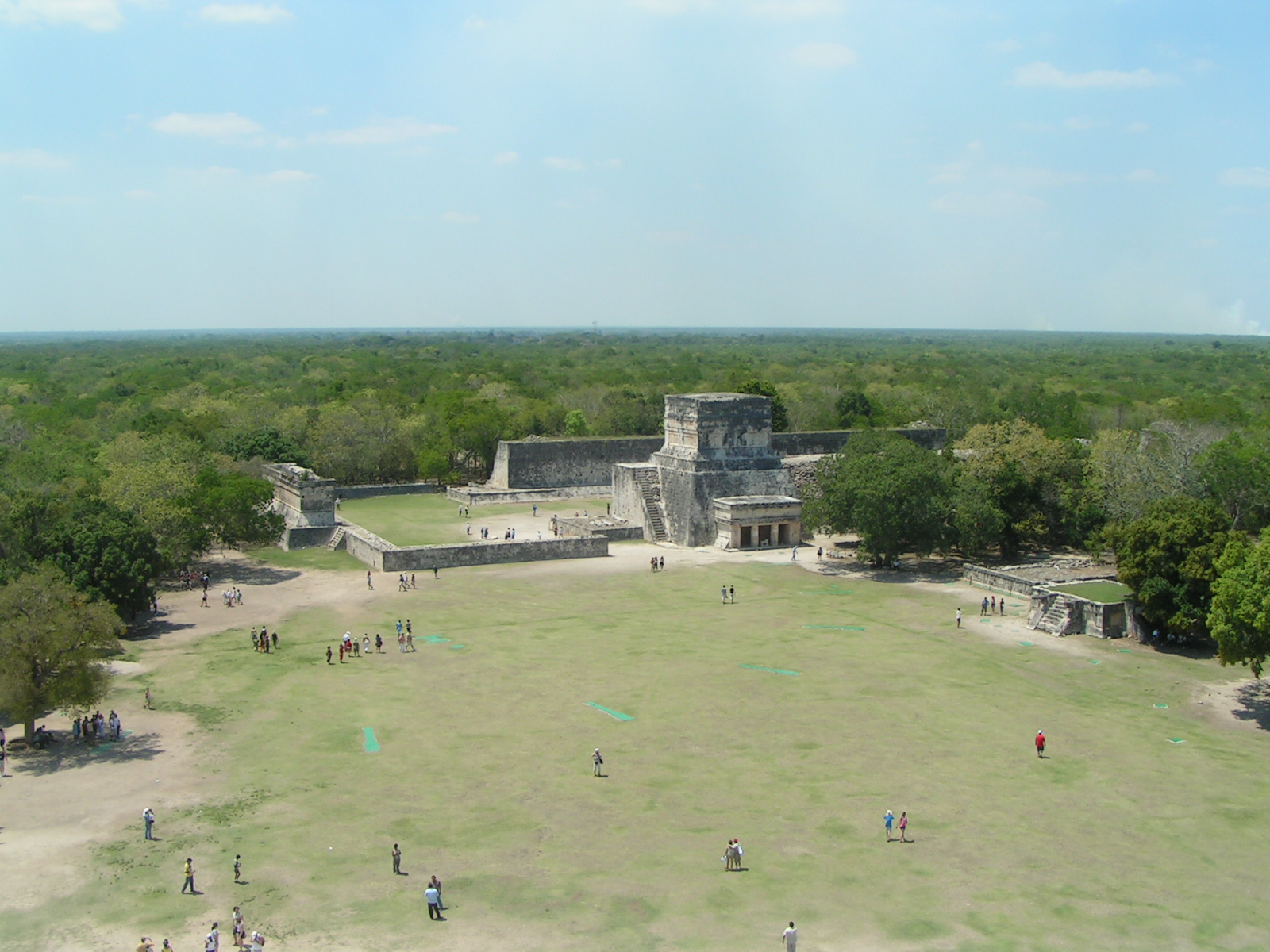 Description: a view from the pyramid "El Castillo", Chichen Itza, Yucatán, Mexico Source: Picture taken by Jan Zatko, April the 14th, 2004